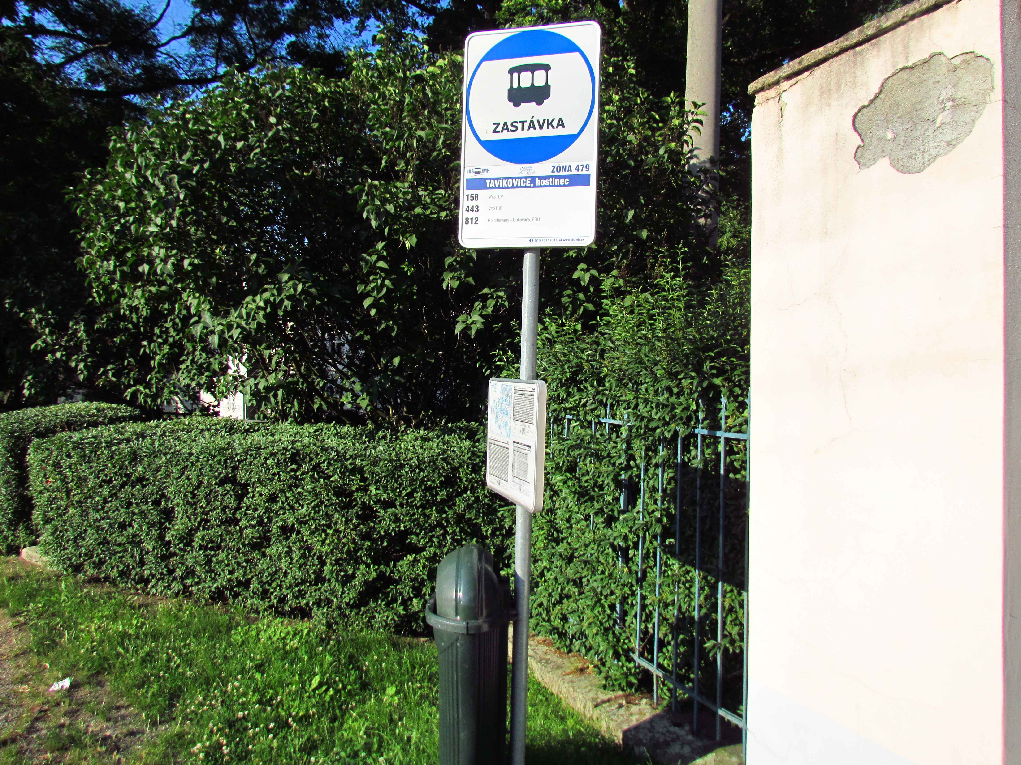 Bus stop in Tavíkovice, Znojmo District.